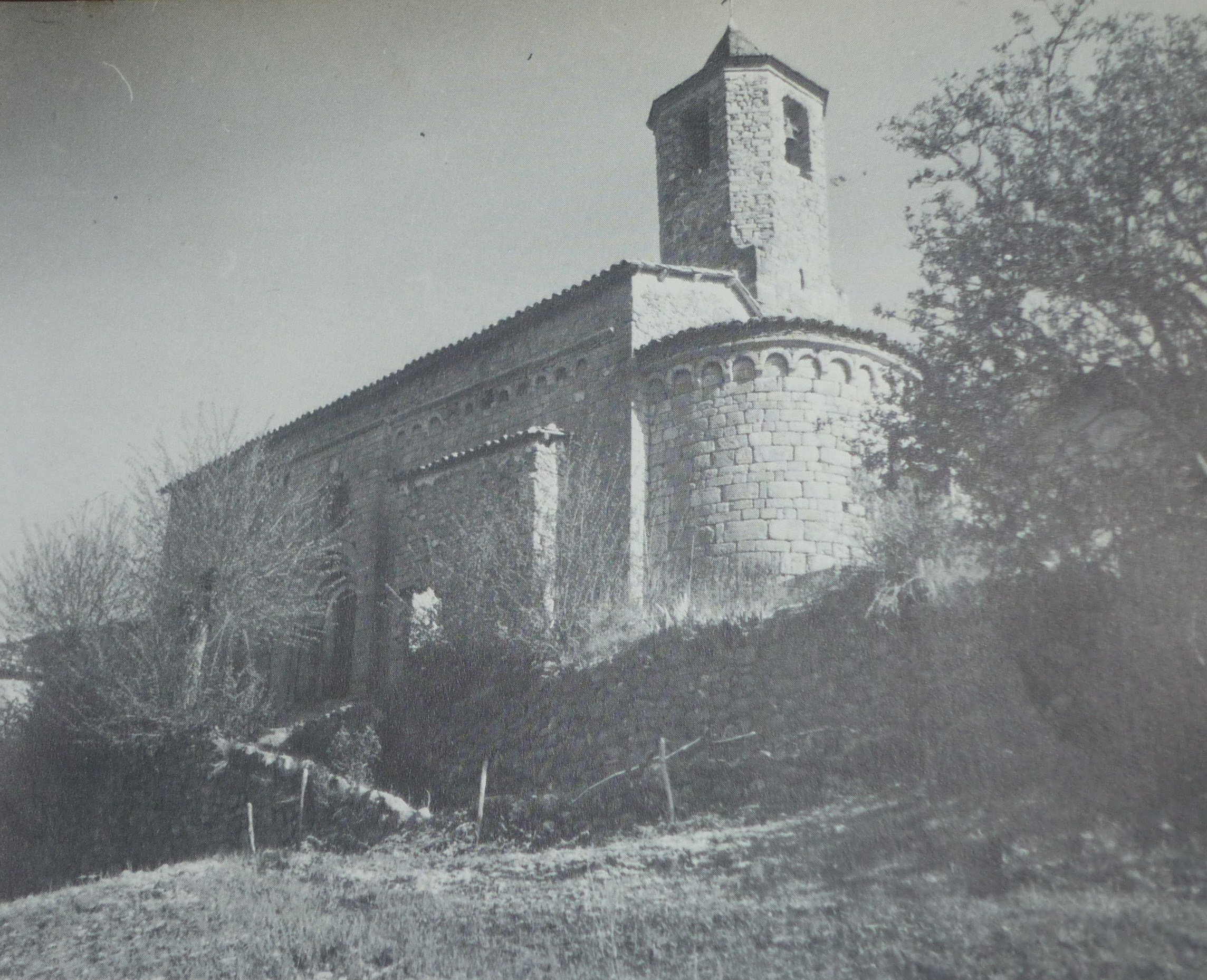 esglesia de viu (Lérida, Spain)